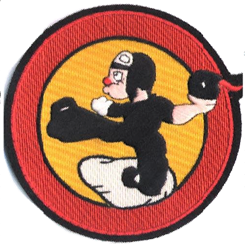 Emblem of the 497th Bombardment Squadron (World War II)